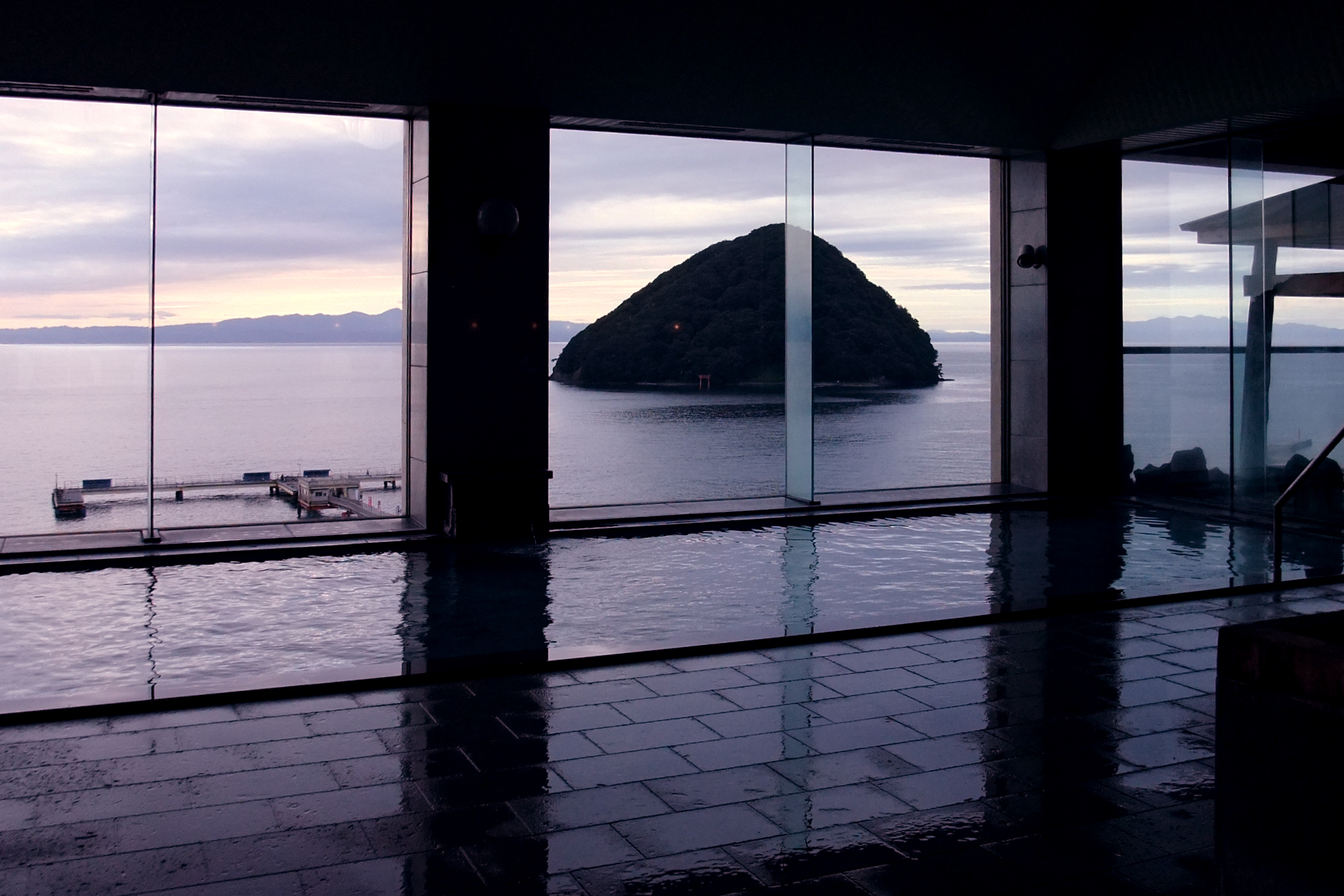 Hotel Kaisenkaku in Asamushi Onsen, Aomori, Aomori prefecture, Japan.